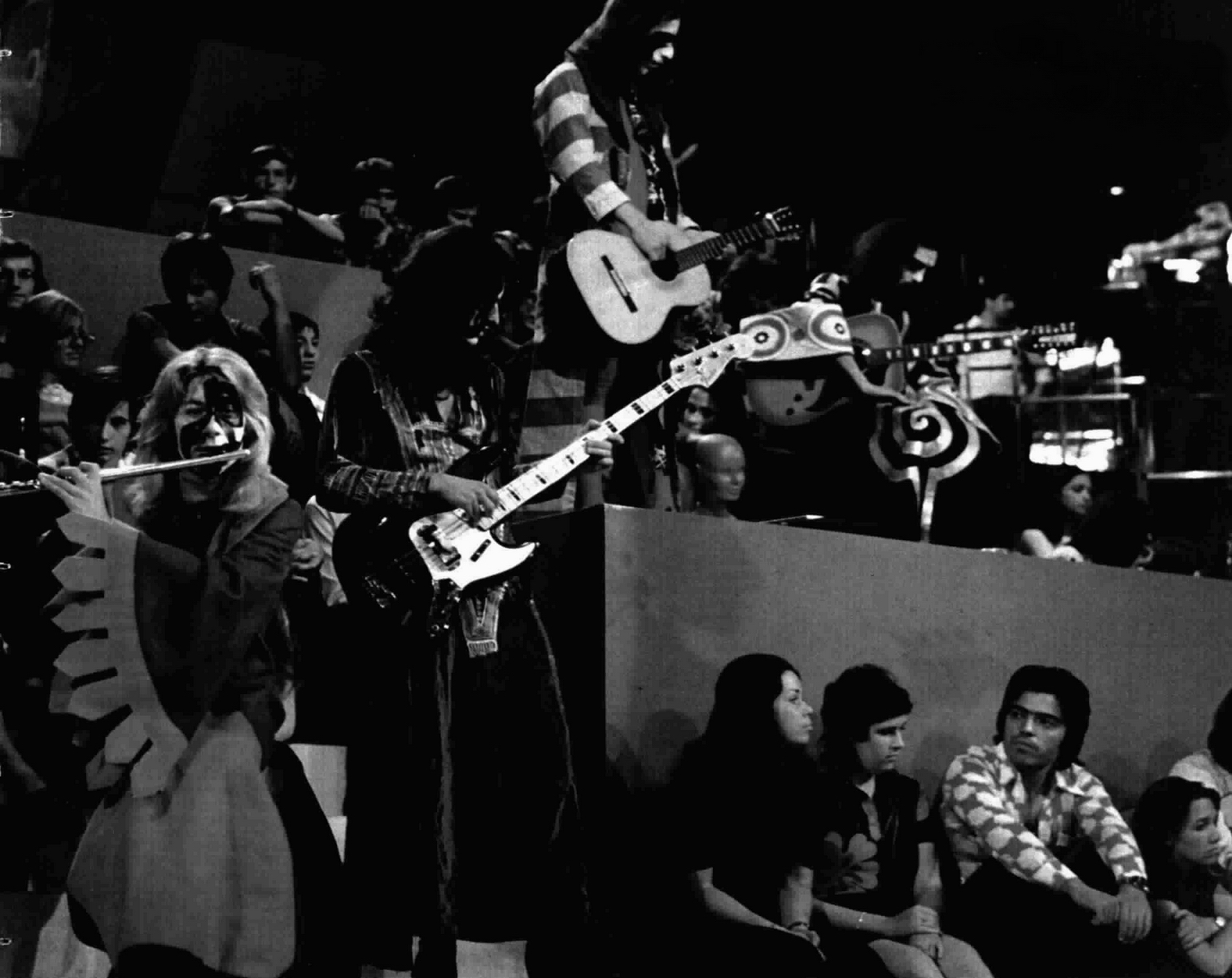 Italian band Osanna performing in the Italian musical show Tutto è pop, Turin